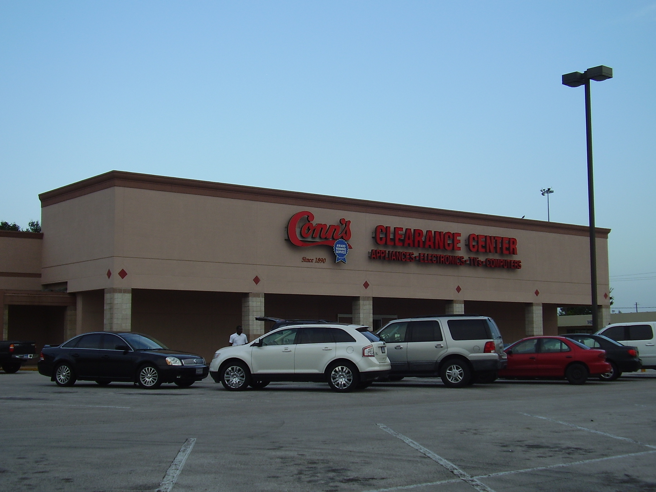 Conn's Store #030 - 9335 Stella Link Houston, TX 77025 (713) 218-8844